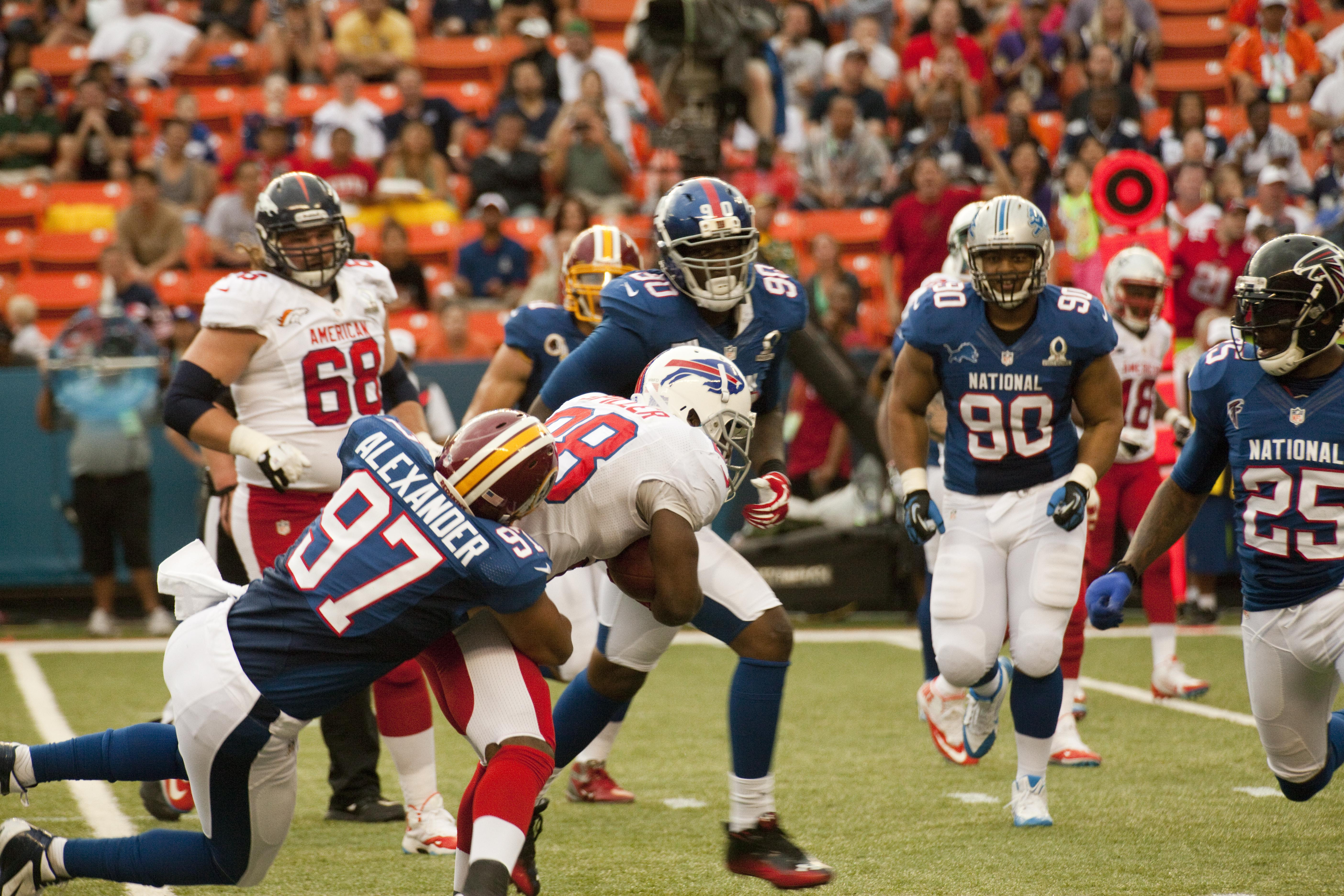 Washington Redskins linebacker Lorenzo Alexander pulls Buffalo Bills running back C.J. Spiller down to the turf during the 2013 NFL Pro Bowl, Jan. 27.